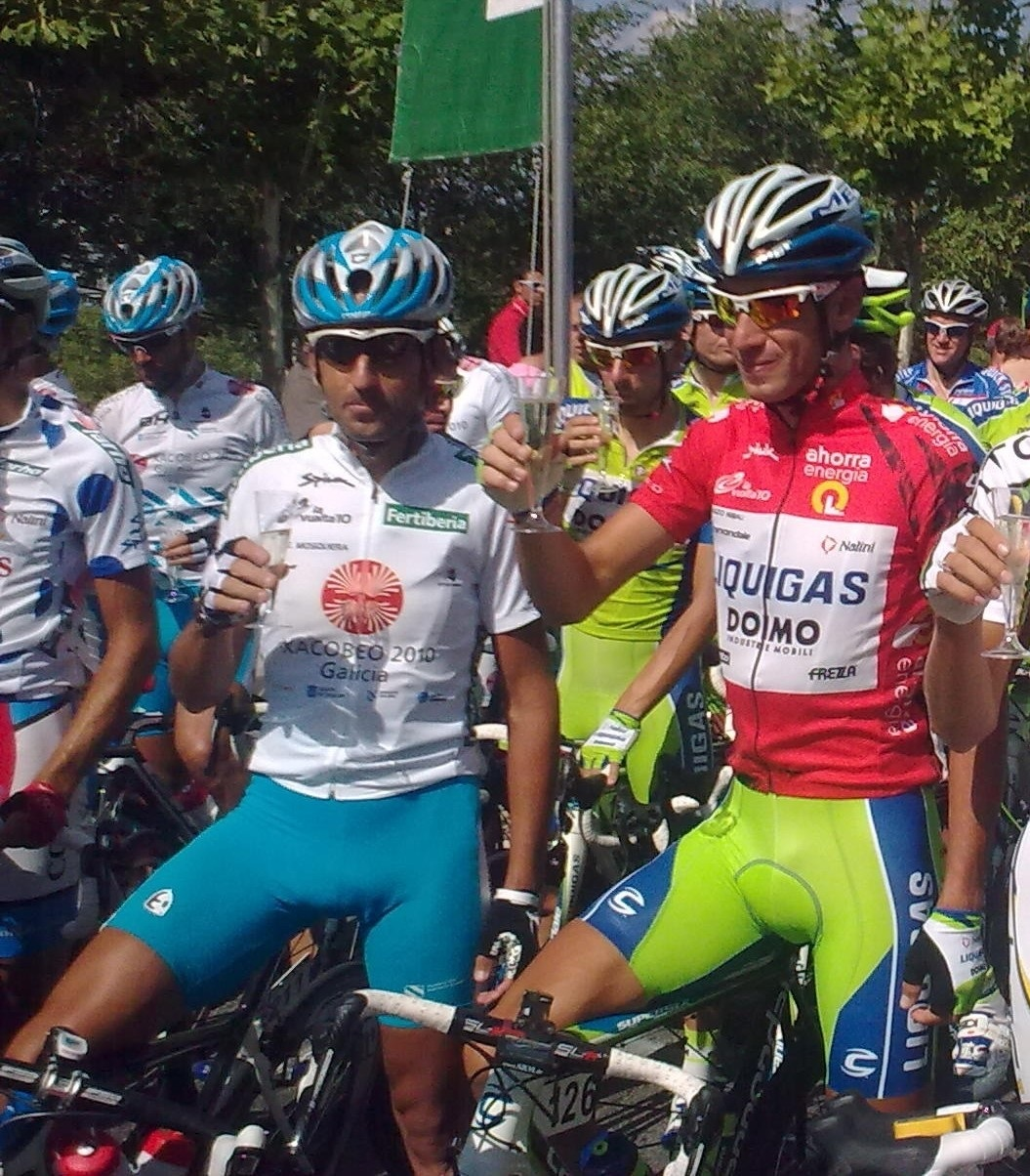 Ezequiel Mosquera and Vincenzo Nibali in the Vuelta a España 2010.